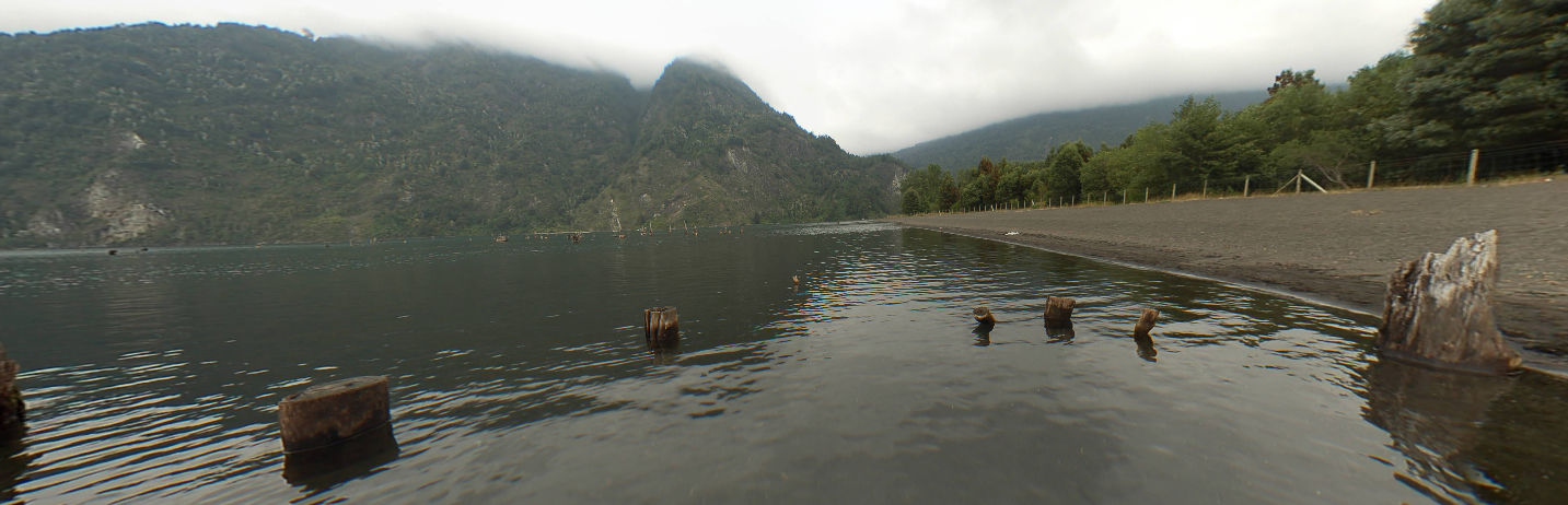 Pellaifa Lake, Región de los Ríos, Chile